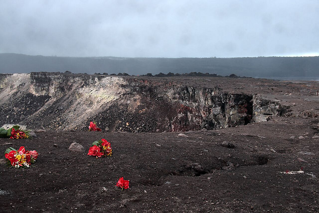 Red flowers apparantly left as an offering for the volcano godess Pele at the edge of the Halema'uma'u Crater in the Kilauea caldera at Volcanoes National Park on the Island of Hawaii.